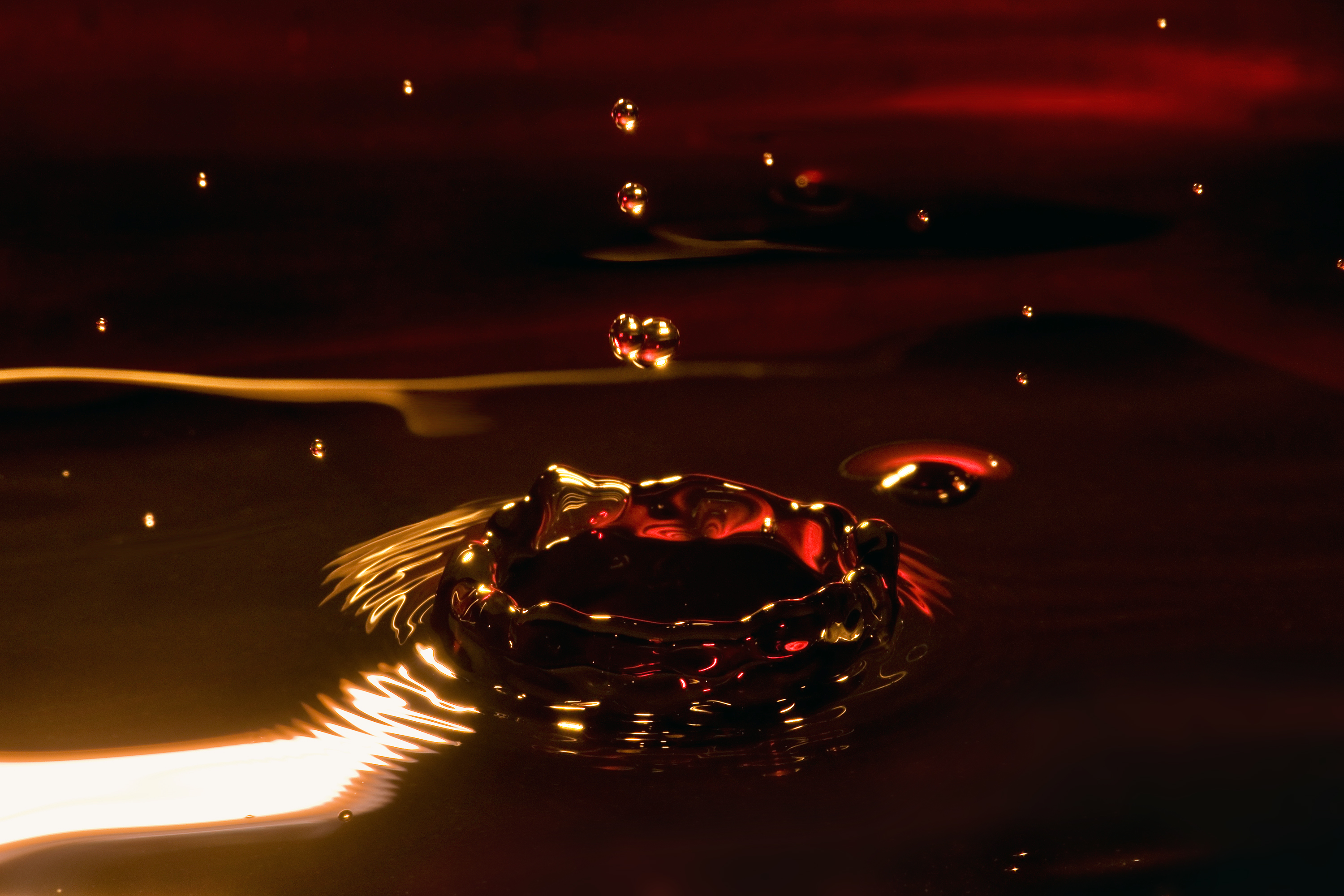 Another try. A bit "lighter"